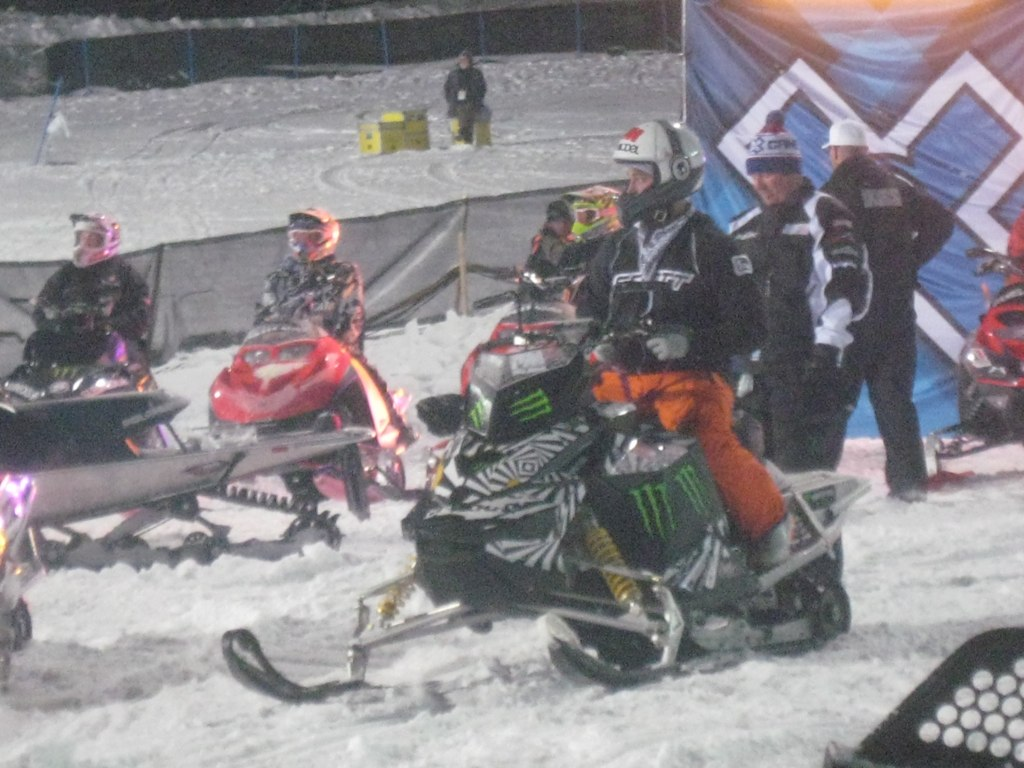 Licensed under a creative commons share-alike license. Use freely, but give credit Philip Nelson, Live Streaming Expert and link to